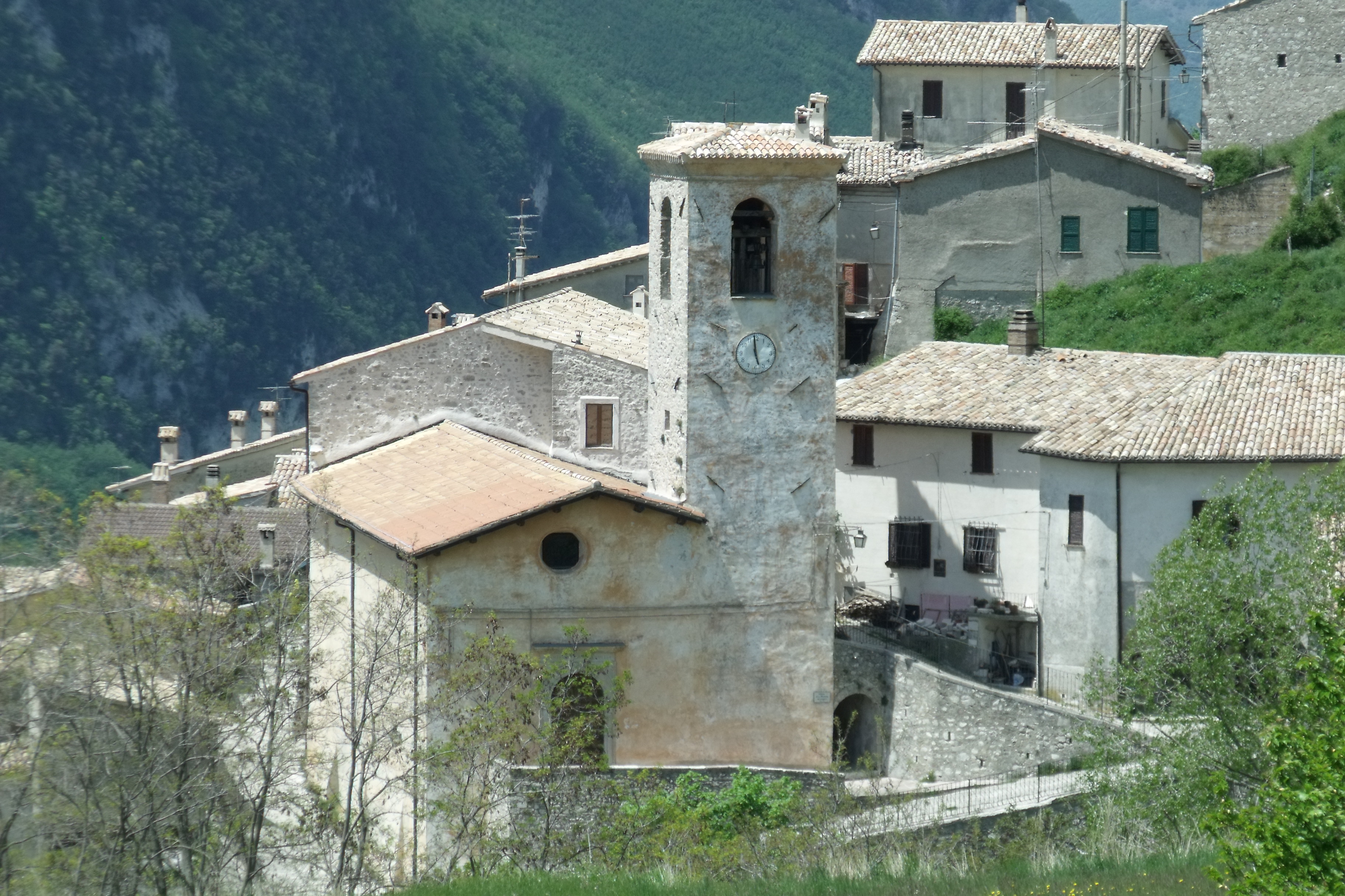 Town of Gavelli with the Church of San Michele Arcangelo, part of the Comune Sant’Anatolia di Narco, Valnerina, Province of Perugia, Umbria, Italy